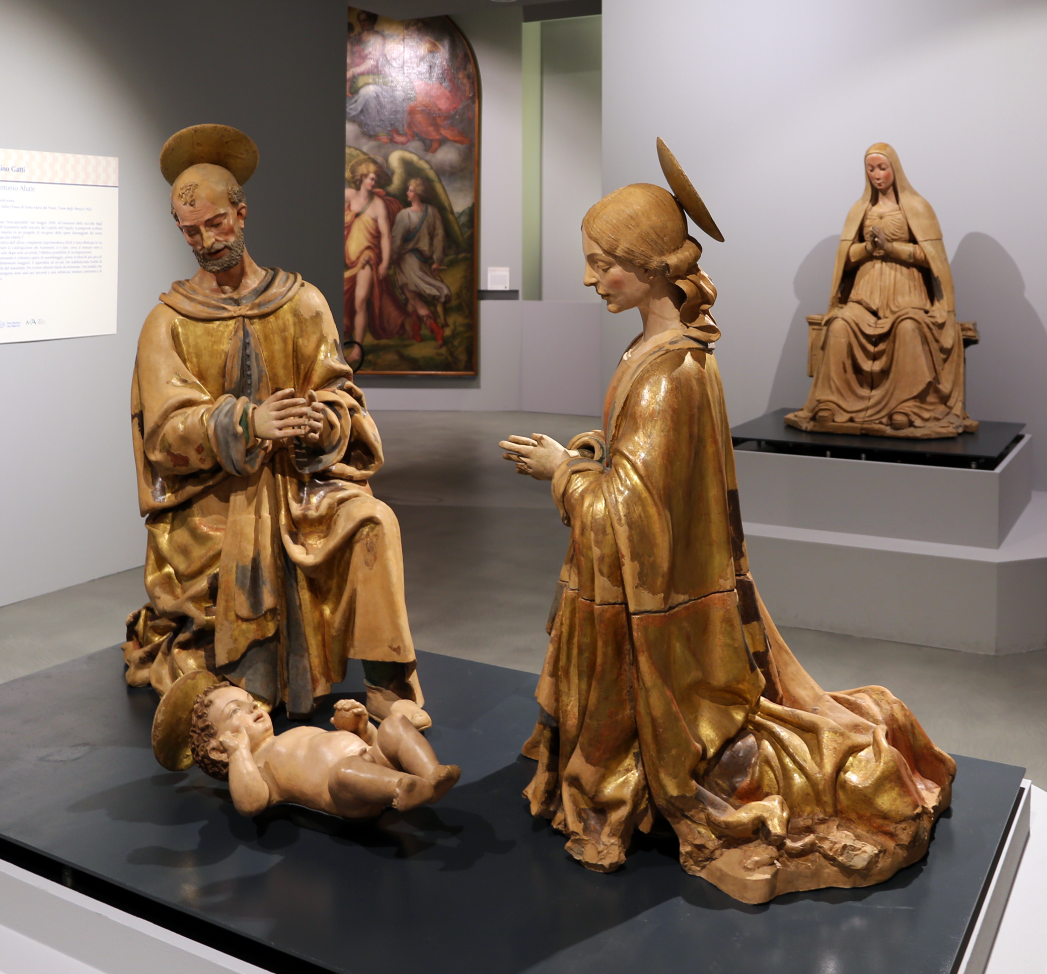 Sculptures in the Museo nazionale d'Abruzzo